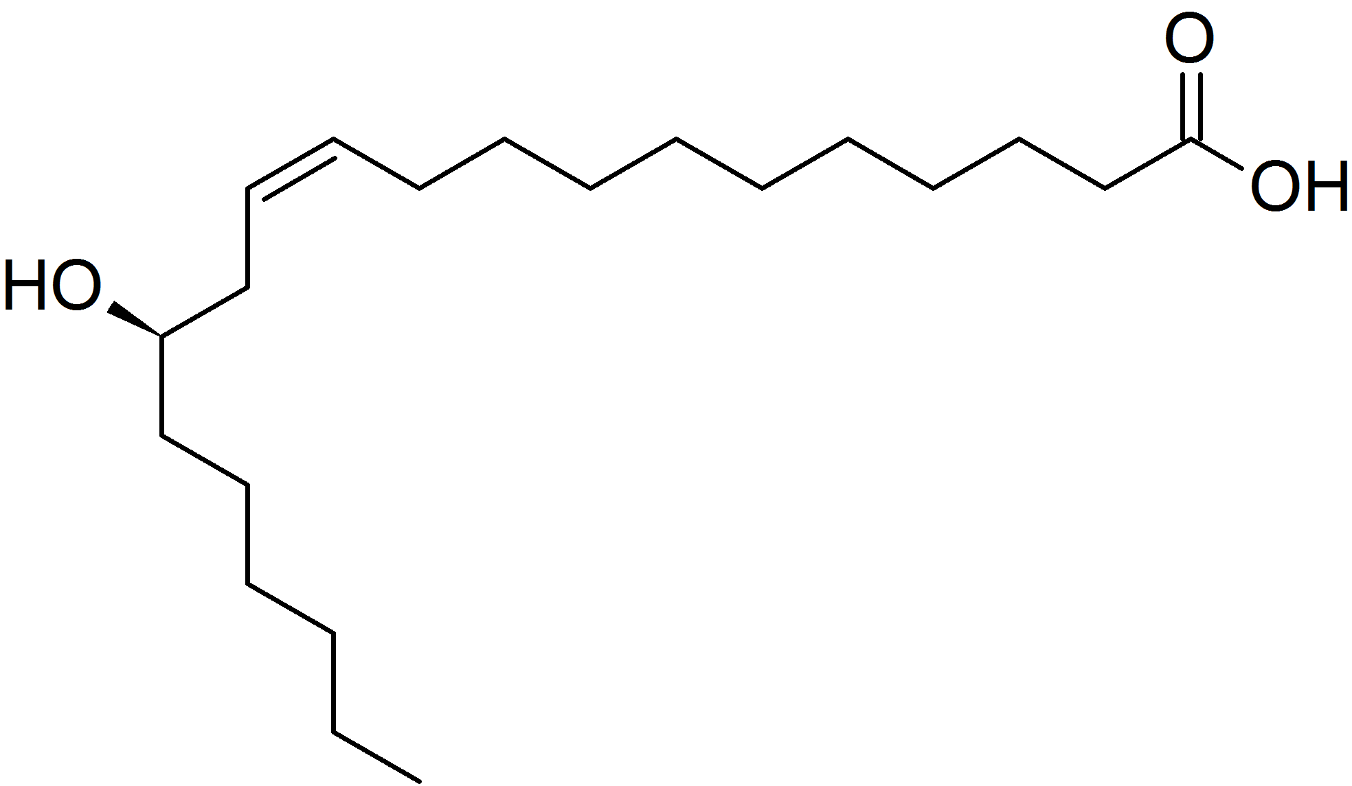 Structure of Lesquerolic acid, CAS 4103-20-2